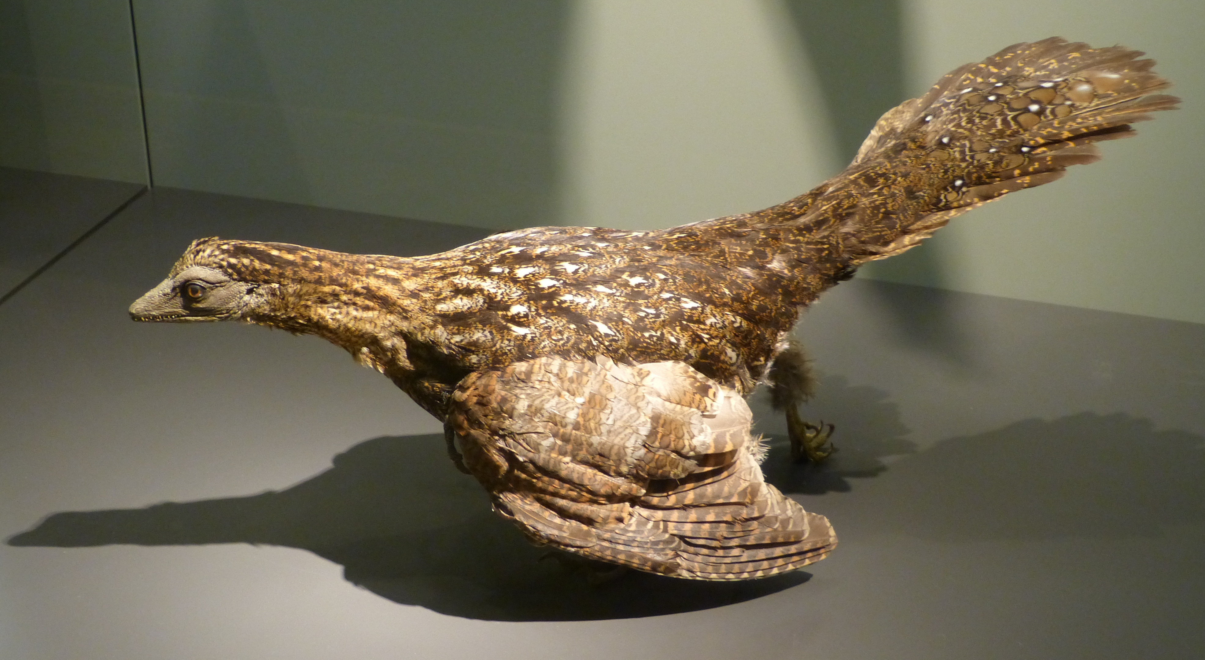 Natural History Museum, Vienna. Modell of Archaeopterix lithographica.